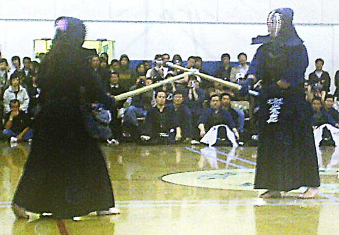 Eiga Sensei in a perfect kamae. Author: Kosi Gramatikoff, ori: Samsung-Digimax A402, mod: Adobe Photoshop CS2: KPT,EQLZ, B&C, Curves Time/Place: Mori Hai Memorial Tournament, jan 29, 2006, Norwalk, California